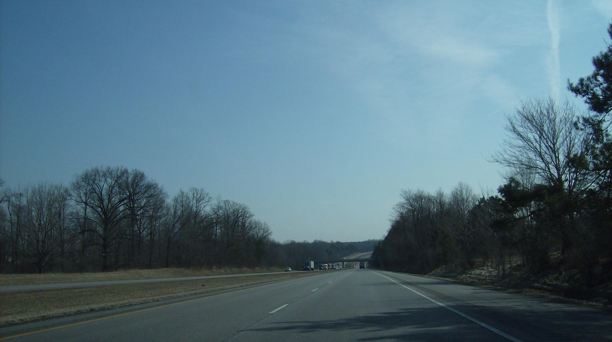 View of Interstate 76 in Rootstown Township, Portage County, Ohio, United States.